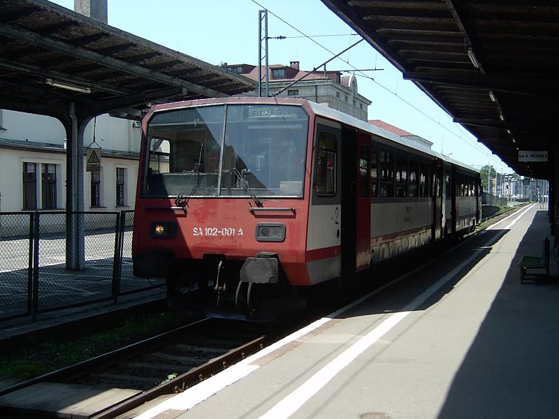 Railbus SA102